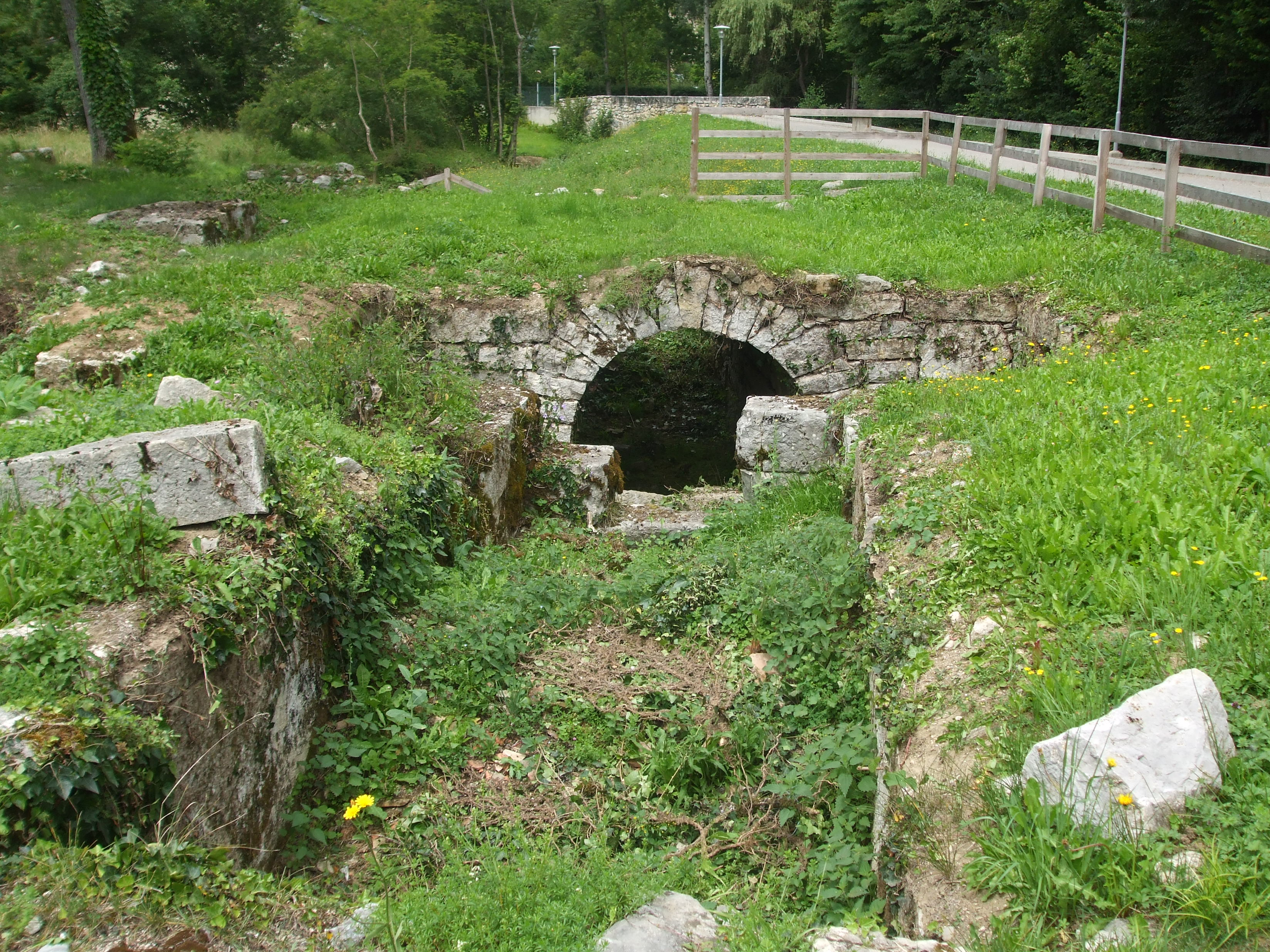 A ruined marble mill in L'Aiguillon (Ariège, France).